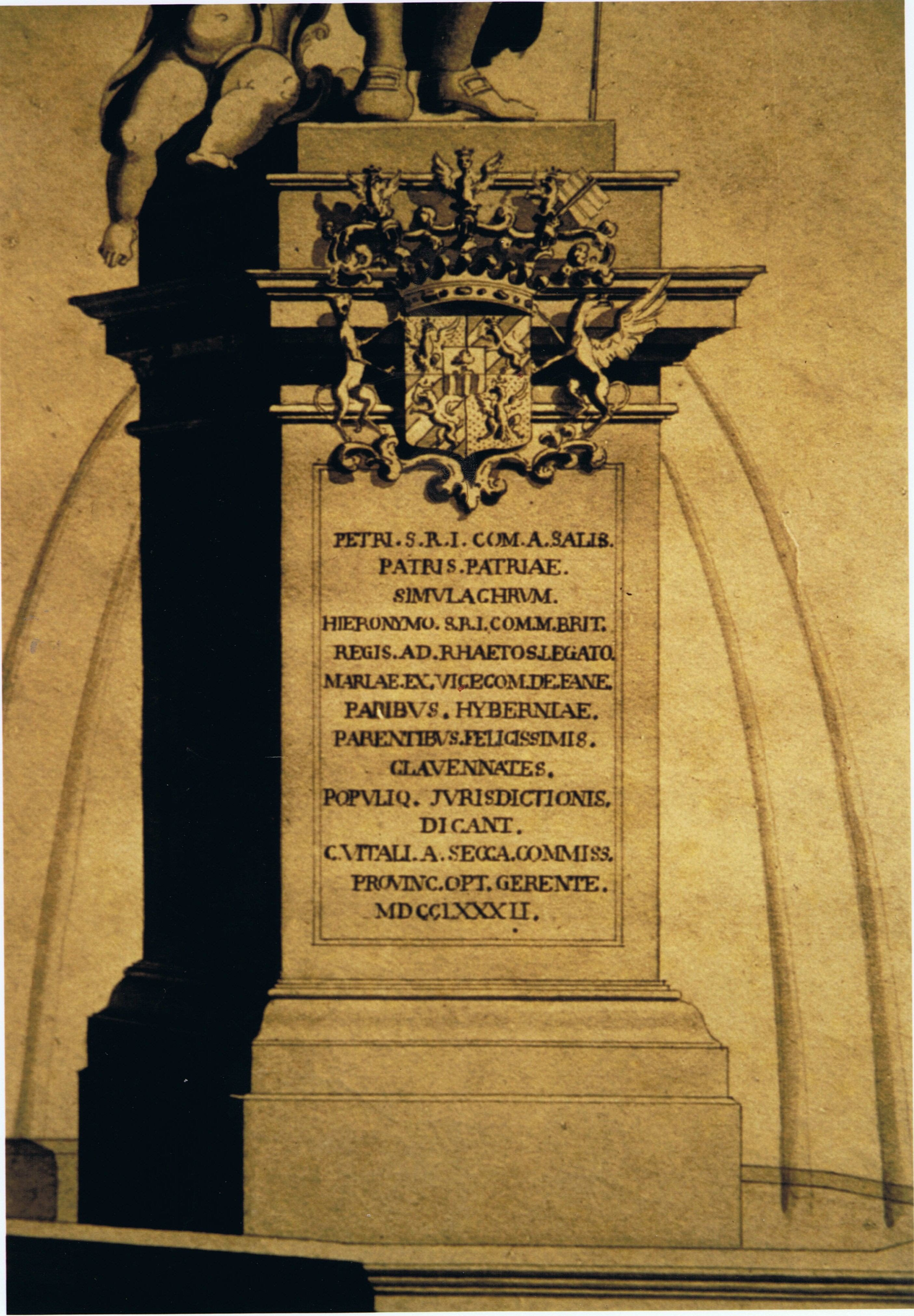 Photo (by R. de Salis, Oct. 2009) of a c.1870 photo of a drawing, probably the drawing used to make the print, of the 1783 statue put up in Peter De Salis' honour in Chiavenna.Rodolph (talk) 20:07, 24 November 2009 (UTC)